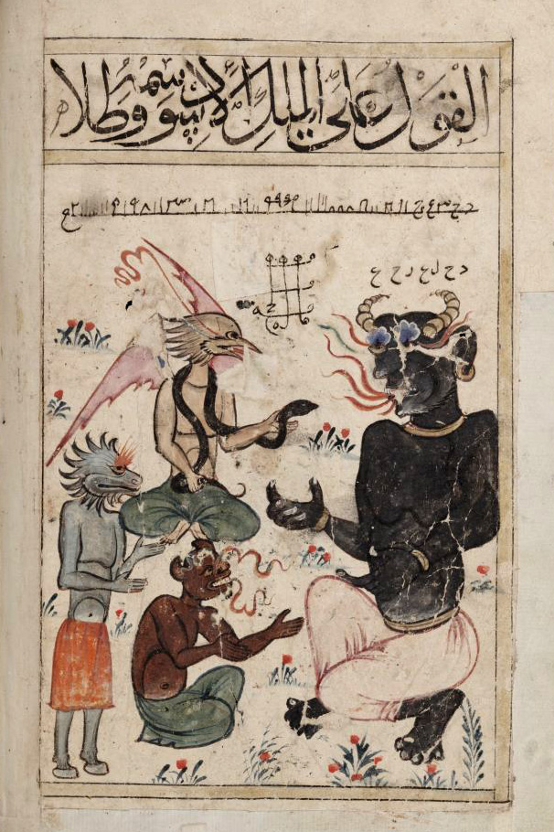 The black king of the djinns, Al-Malik al-Aswad, depicted in Kitab al-Bulhan = composite astrology/astronomy/geomancy Arabic manuscript. Original held by the Bodleian Libraries Shelfmark; MS. Bodl. Or. 133. Fol. 30b